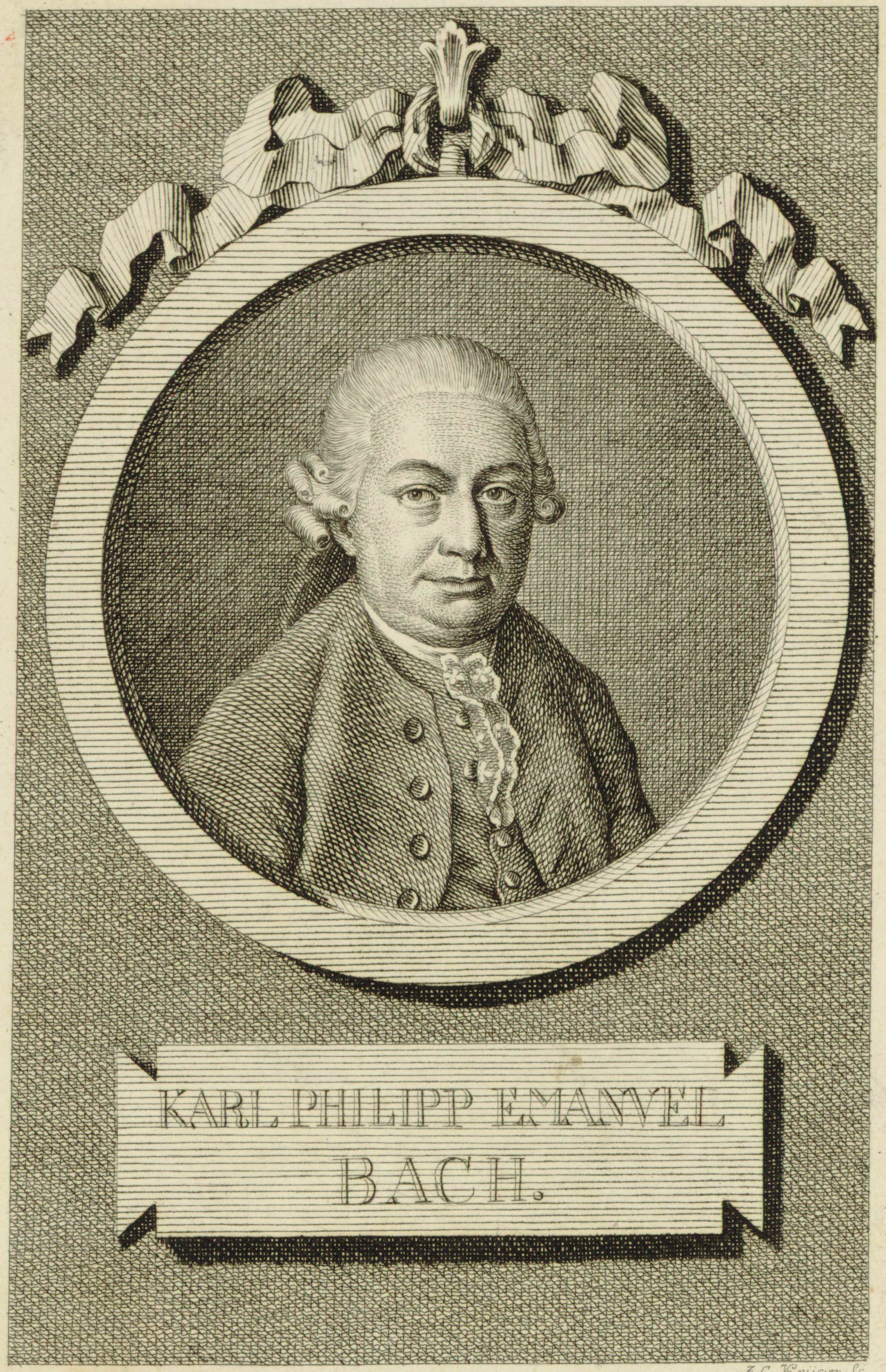 Portrait of Carl Philipp Emanuel Bach